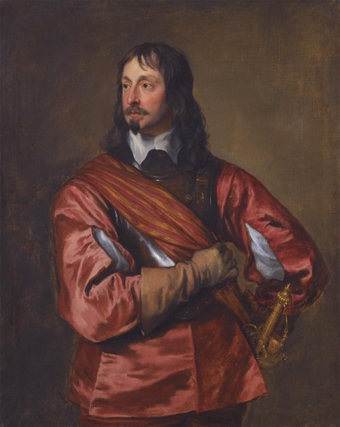 Portrait of Vice Admiral Sir John Mennes (1599-1671) 107.5 by 85 cm oil on canvas